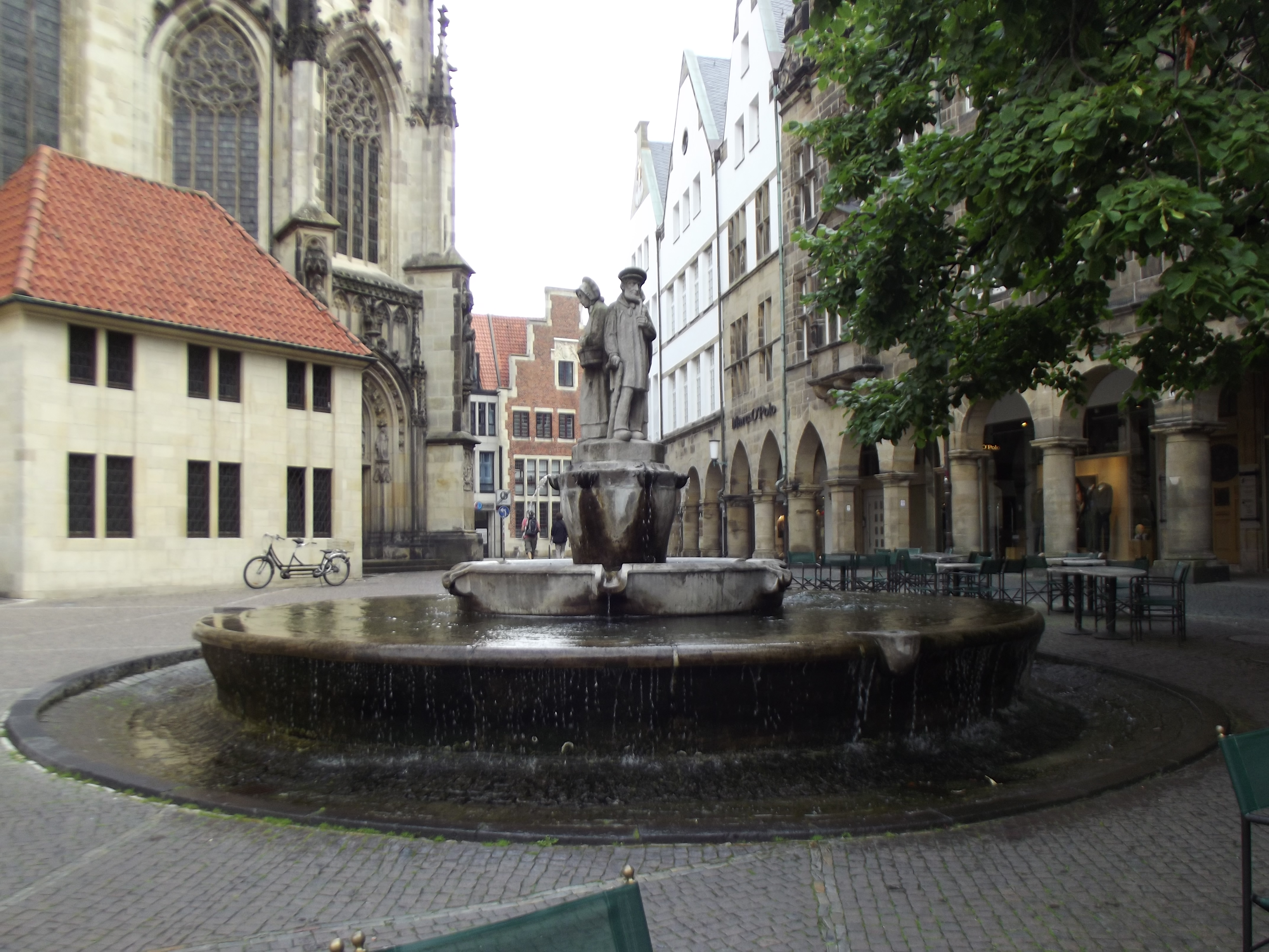 Well at the Lambertiplatz Münster 2013